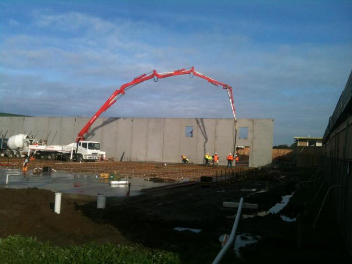 Parkdale Secondary College during government funded building upgrades.